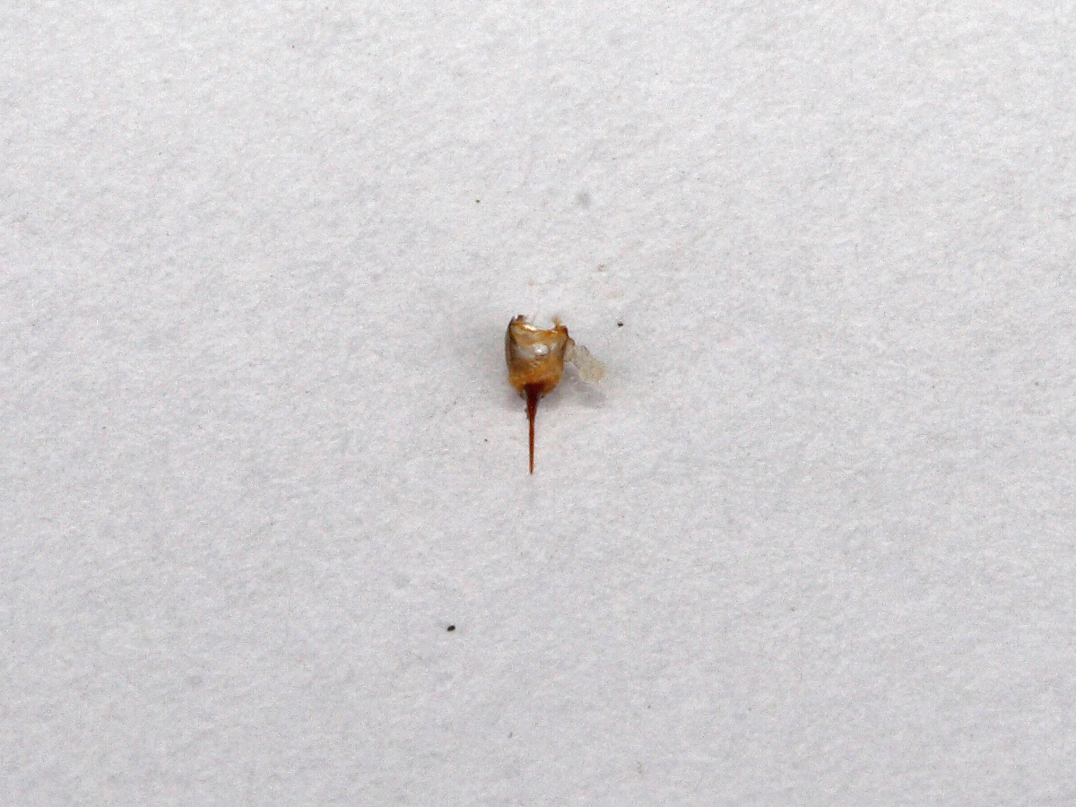 Stinger of a honey bee after a bee sting